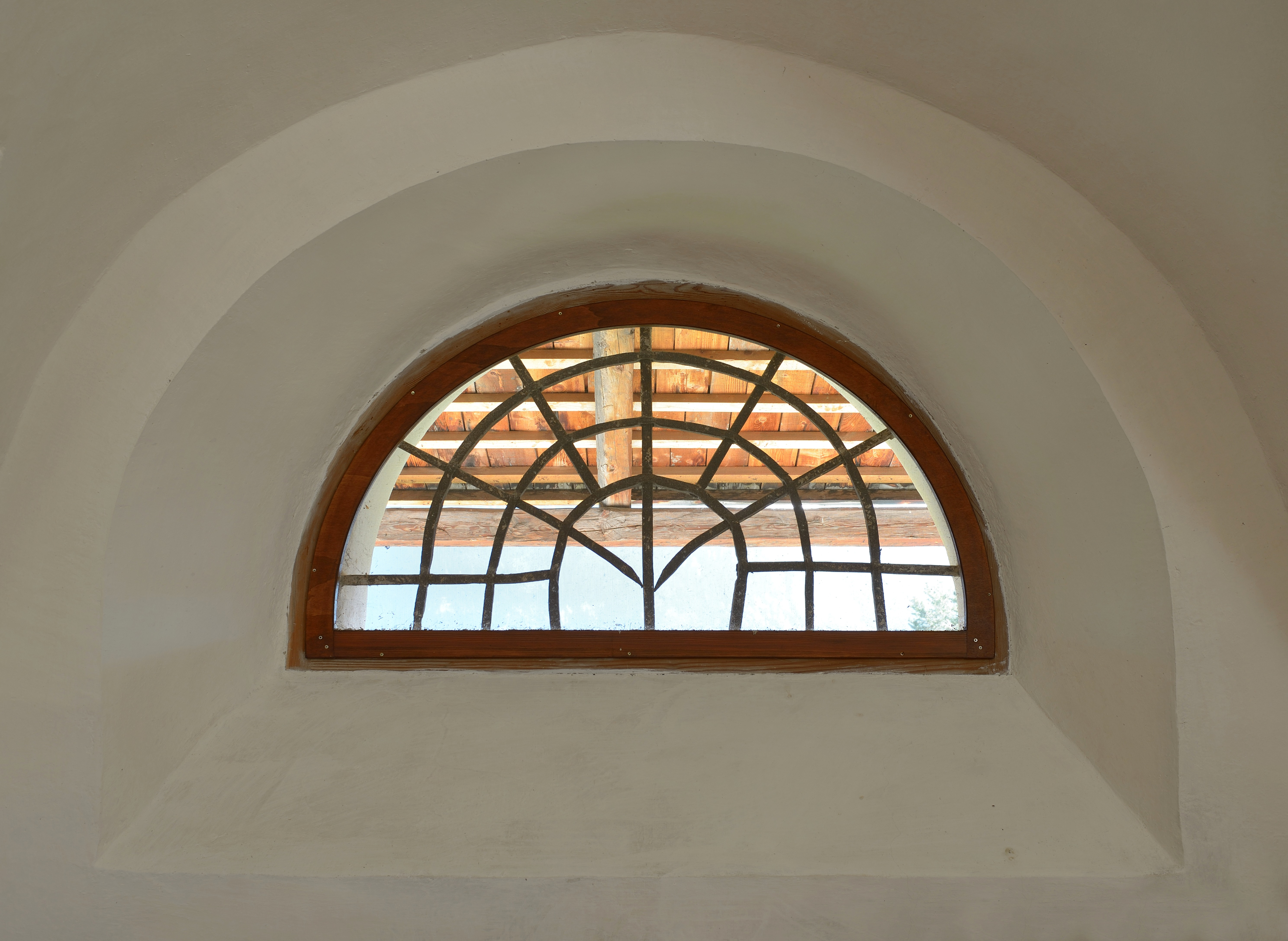 Lunettewindow in the St. James church in Urtijëi, in Val Gardena. 17th century window grating of wrought iron.